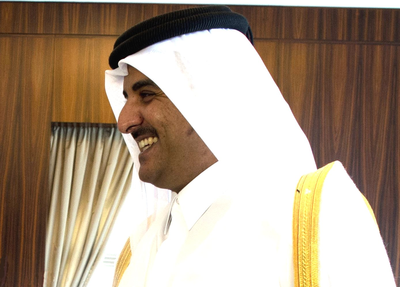 Sheikh Tamim bin Hamad Al Thani - 2013 (cropped)